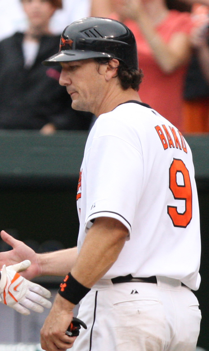 Description Paul Bako, with the Baltimore Orioles Date23:14, 26 August 2009 (UTC) user Keith Allison, cropped by KV5 (Talk • Phils)Permission (Reusing this file)